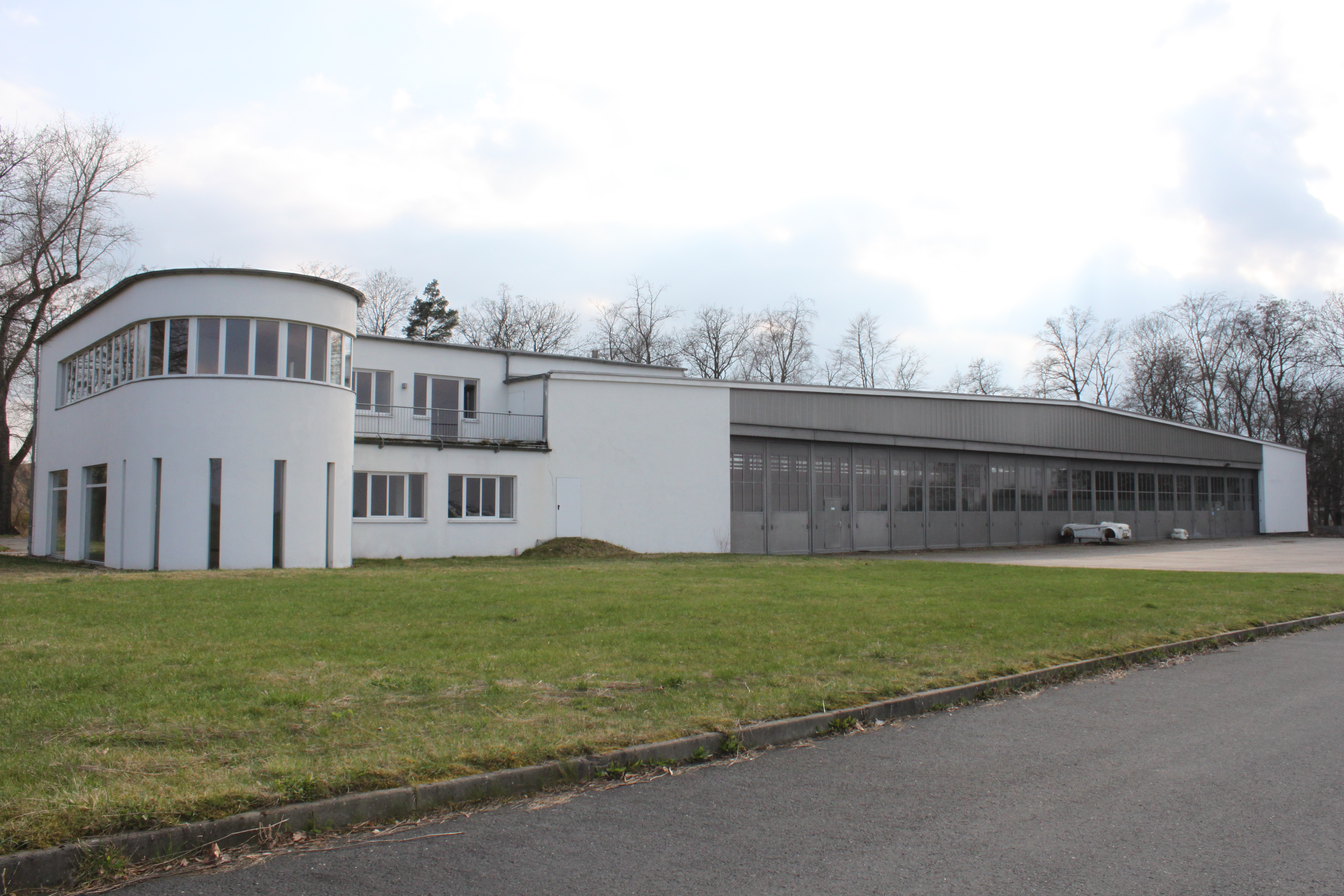 the emty building of Young Engineers Sportscar